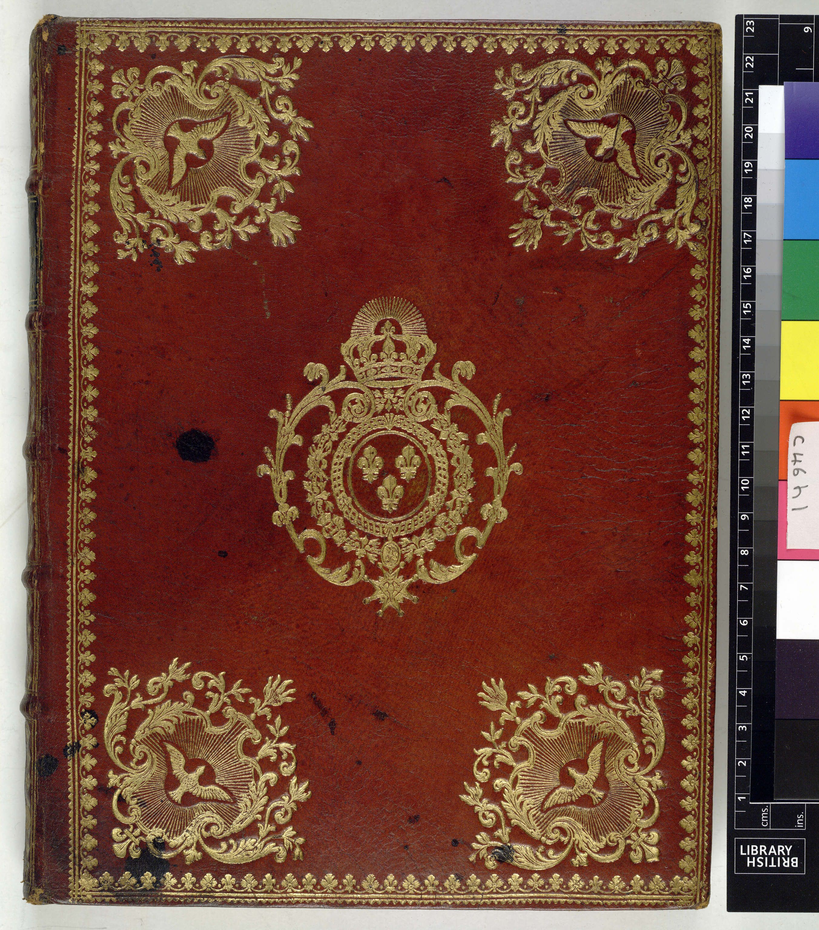 Style: Armorial; Caption: Upper cover; Colour: Red; Edge: Unspecified